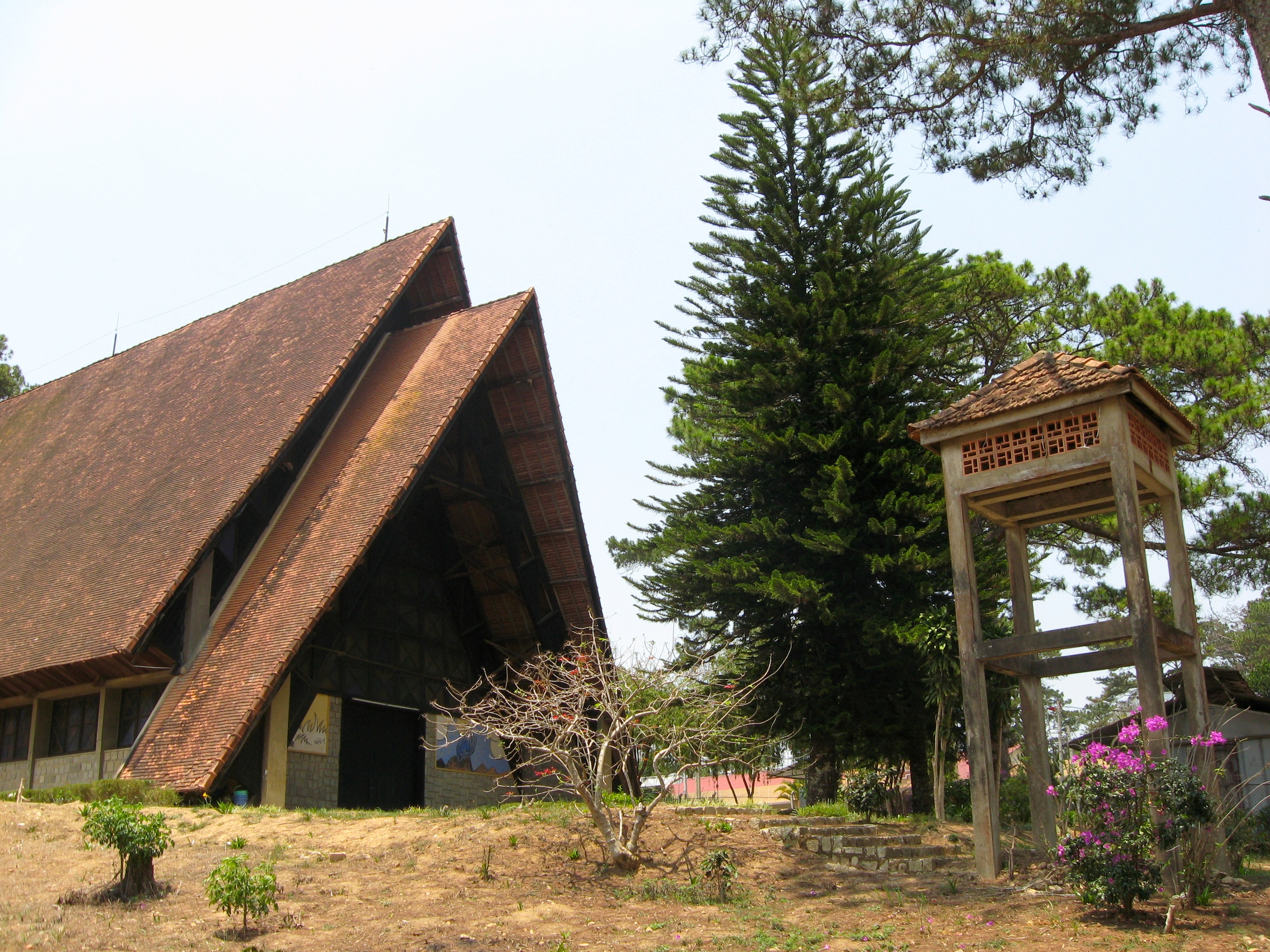 Cam Ly Church